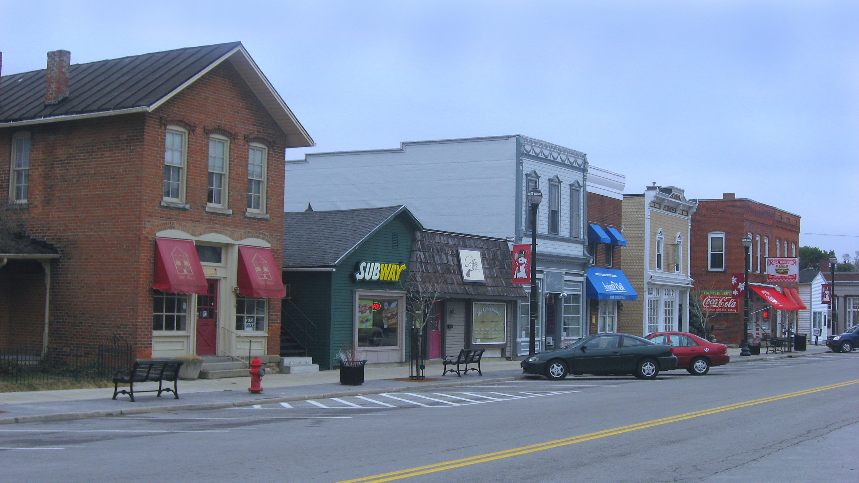 Buildings on the eastern side of the first block of N. Third Street in Waterville, Ohio, United States. This block is part of the Waterville Commercial District, a historic district that is listed on the National Register of Historic Places.